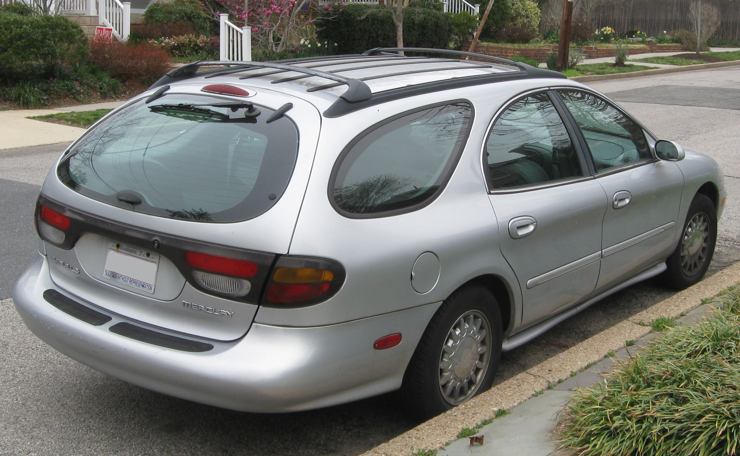 1996-1997 Mercury Sable photographed in Washington, D.C., USA.